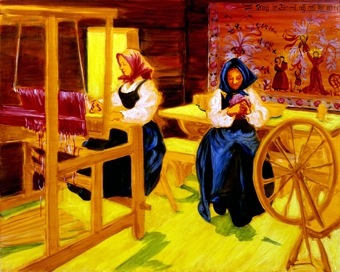 2007, Fluorescent egg tempera; Lead white, chrome yellow light, Prussian blue, cochineal, bone black, Spanish glazing ochre in oils on board, 122 x 153cm